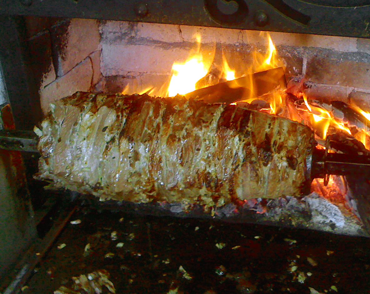 Cağ Kebabı of Erzurum in Turkey - General view of the spit